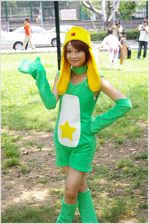 A girl cosplayed Keroro from Sgt. Frog. You can see the activity of cosplay on her background.